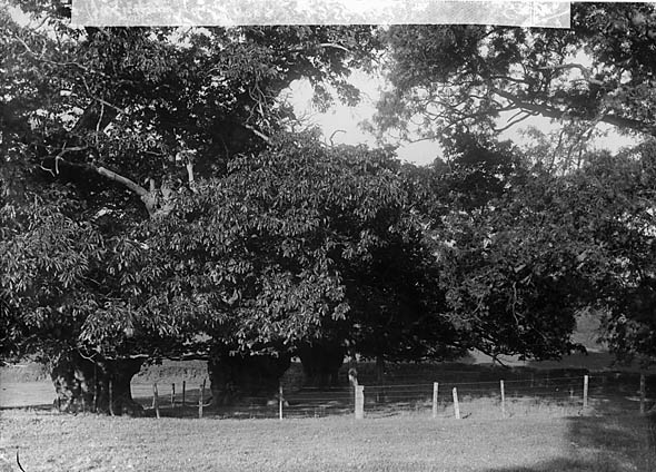 1 negative : glass, dry plate, b&w ; 12 x 16.5 cm.